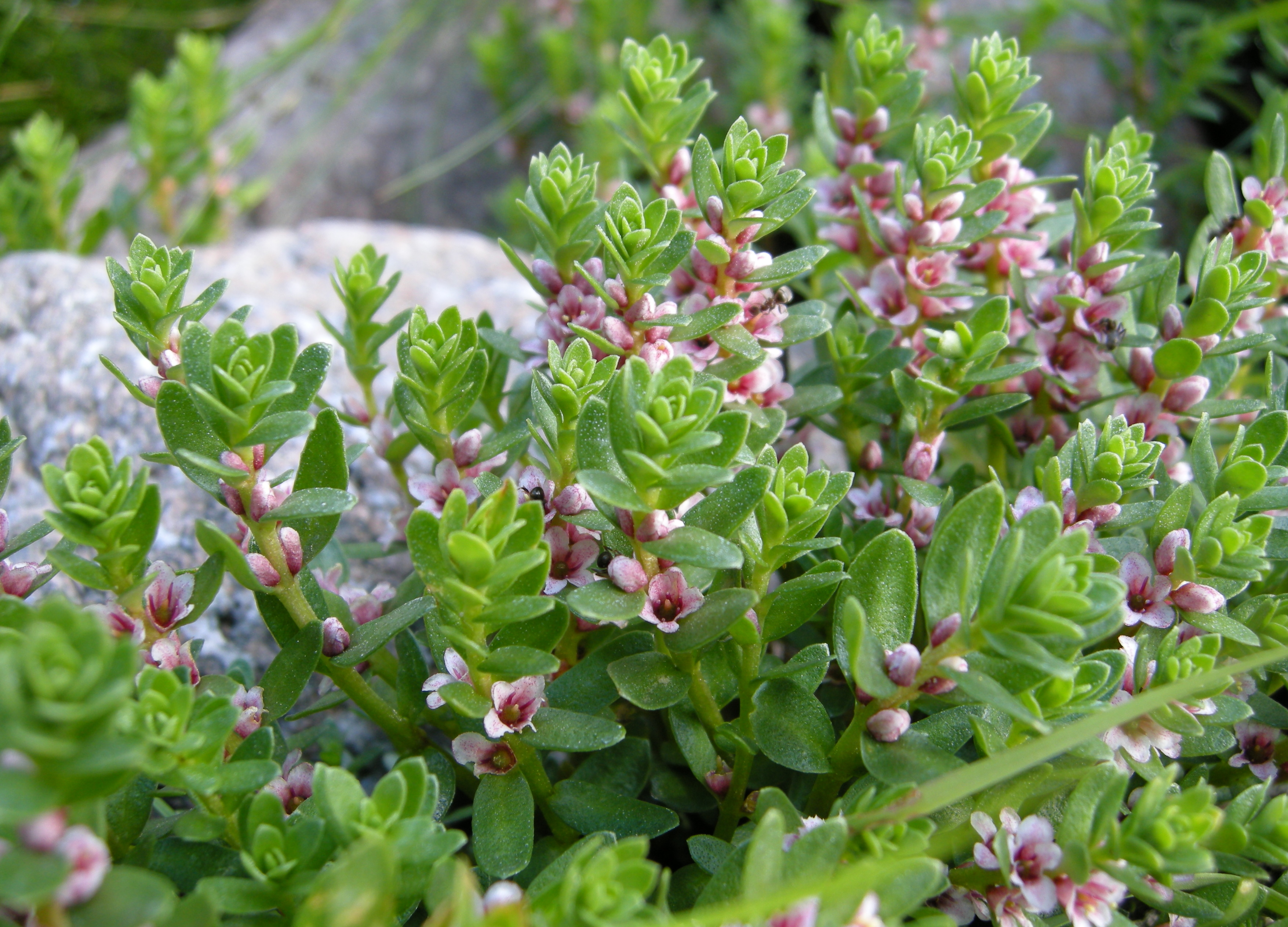 Sea milkwort, sea milkweed, black saltwort - Glaux maritima. Larvik in Norway.